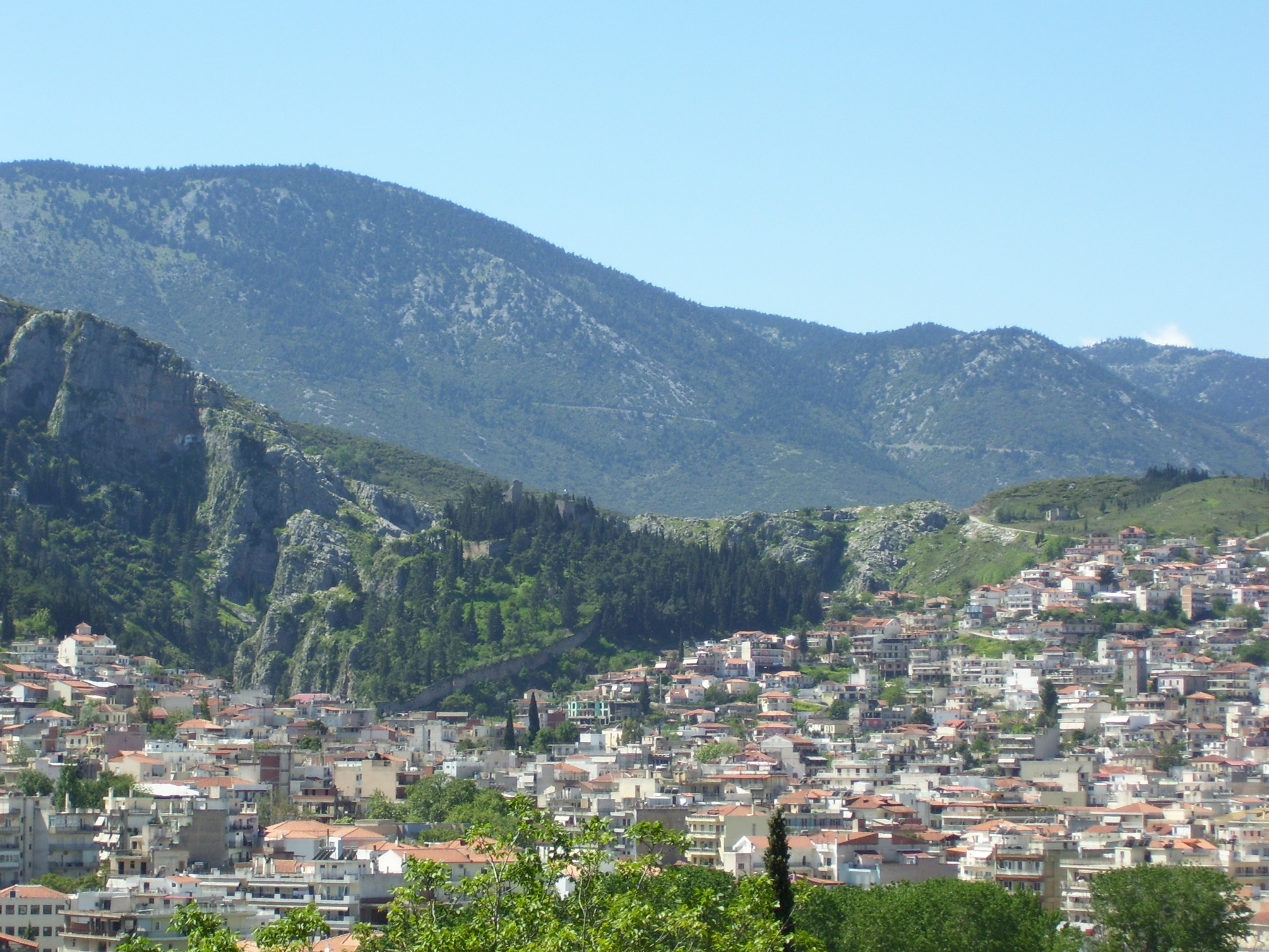 Livadeia, city in Boiotia, Greece